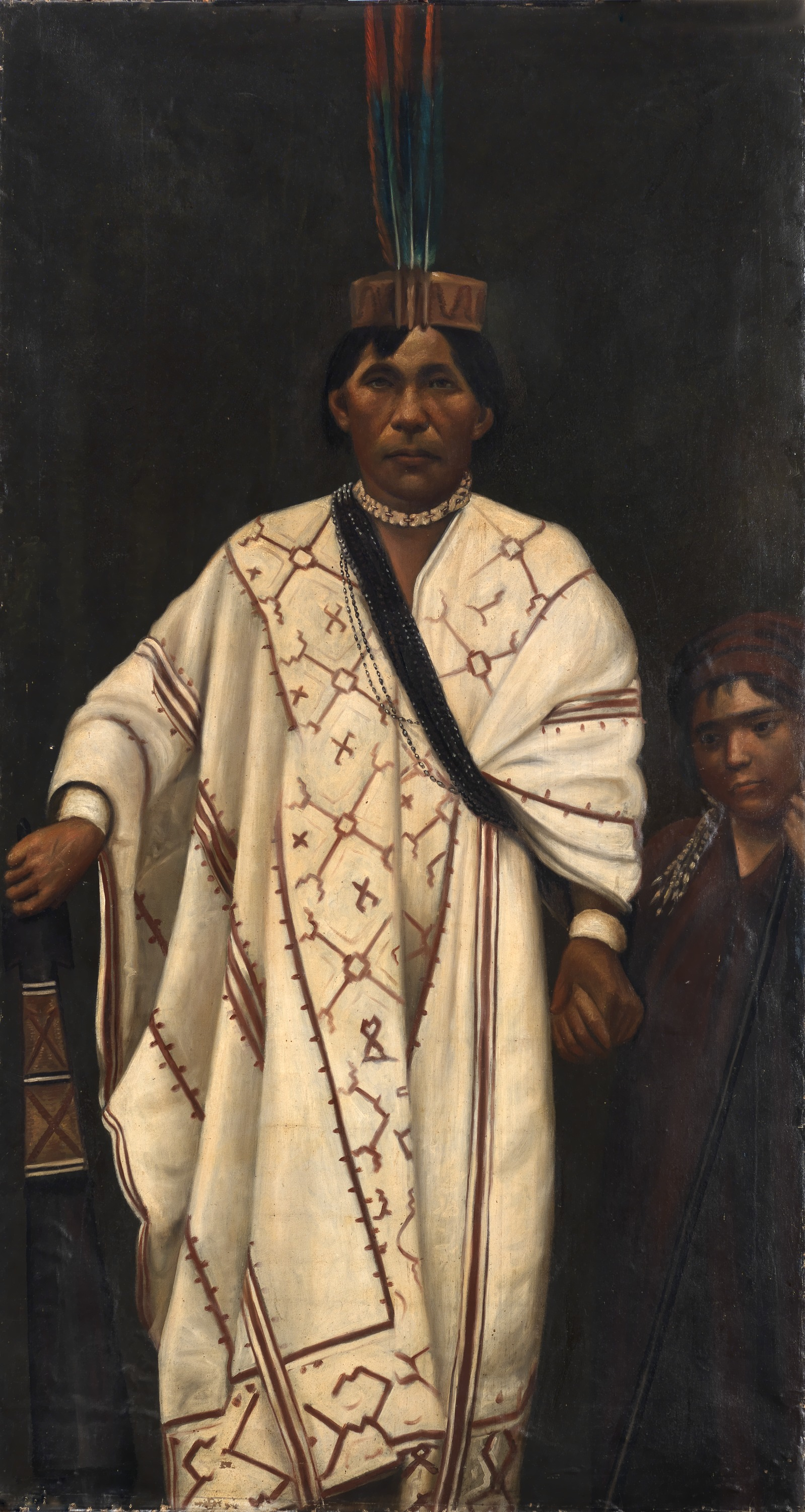 Piro Indian Chief at the Smithsonian American Art Museum and its Renwick Gallery, painting, oil on canvas, 66 x 35 in. (167.6 x 89.0 cm.) Object number : 1985.66.164,676 Record ID : saam_1985.66.164_676